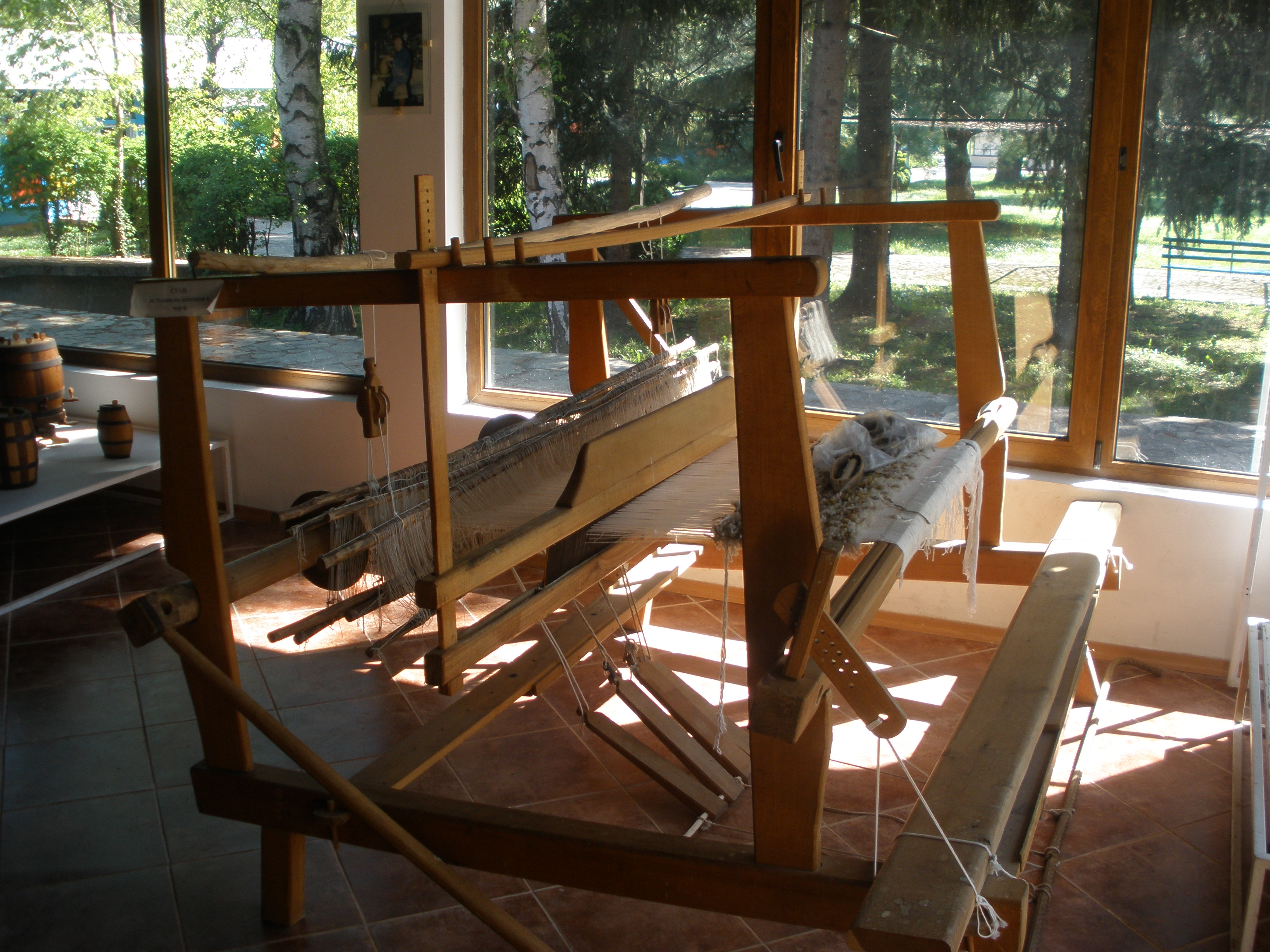 Loom, Oreshak